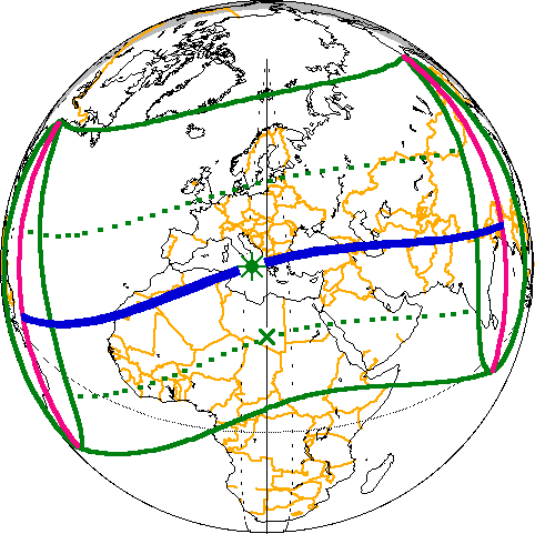 Solar eclipse map of path on earth. Solar eclipse of June 24, 1312 BC